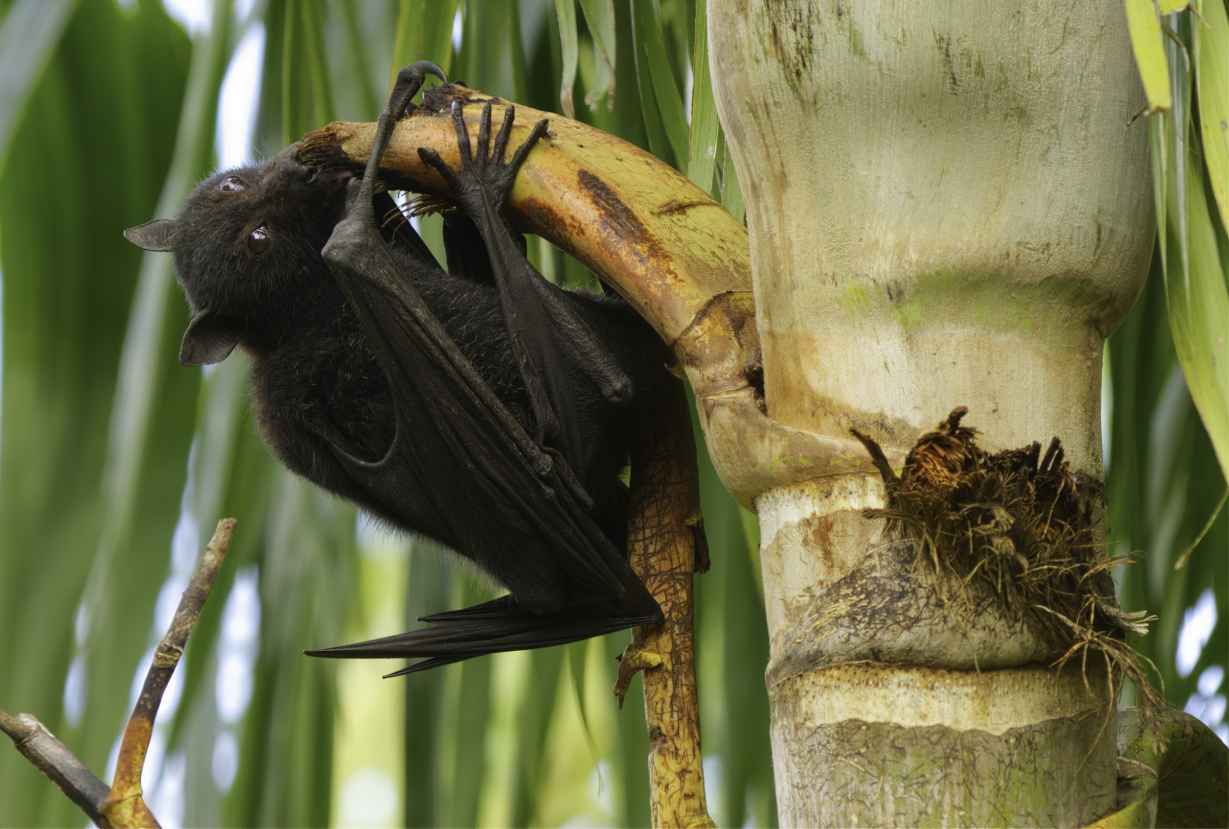 Black Flying Fox - Pteropus alecto - feeding on a palm tree in Brisbane, Queensland, Australia. Photographed in Roma Street Parklands near the CBD.(IMG 15802)